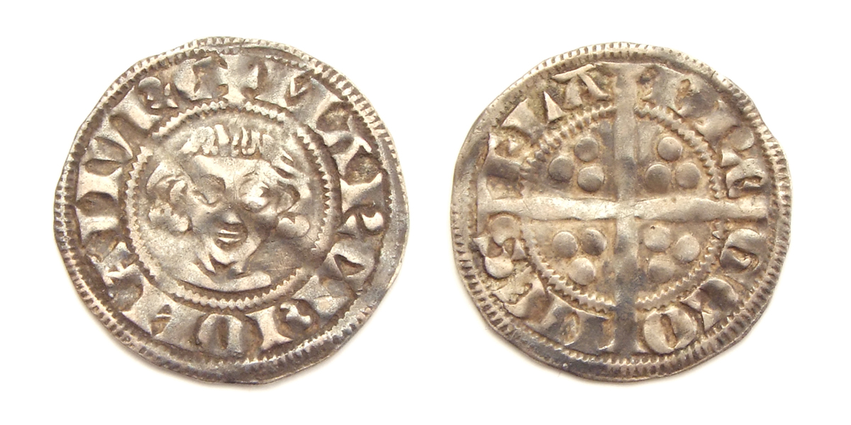 Sterling, Guy of Dampierre, struck Namur circa 1295-1296. Obverse: Bare headed bust facing +MARChIONAMVRC. Reverse: Long cross pattee with three pellets in each angle, GCO MЄS FLA DRЄ.